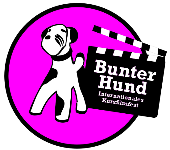 Logo of the Munich International Shortfilmfestival Bunter Hund